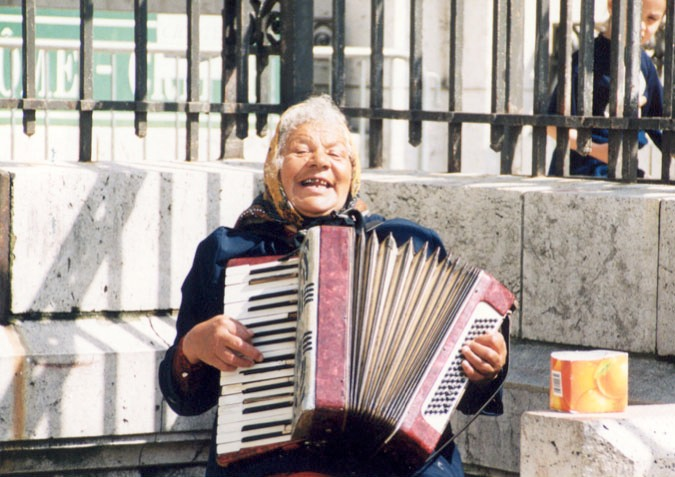 Author: Webber Source: "own work" Date: 2000